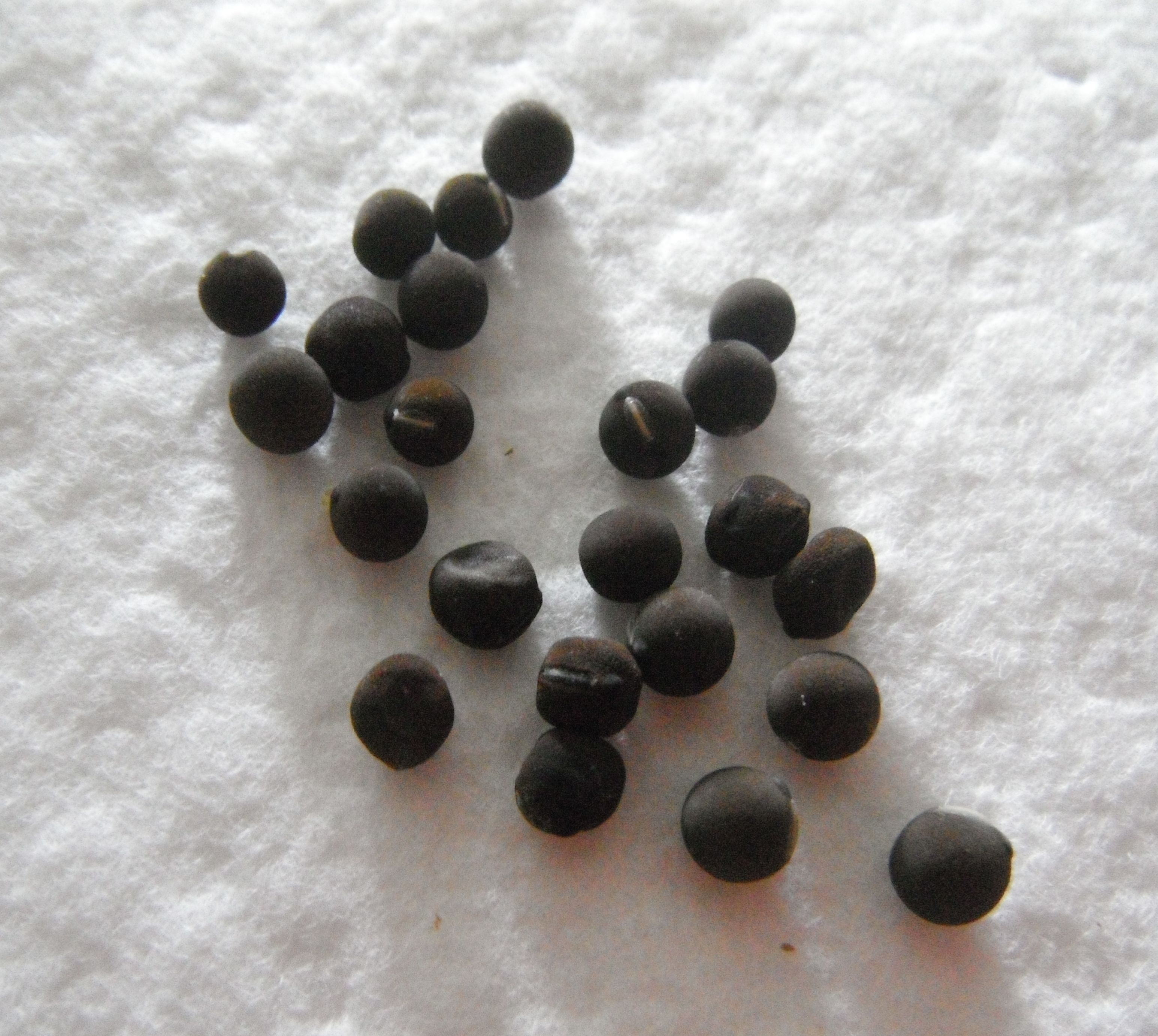 sweet pea (Lathyrus odoratus) seeds